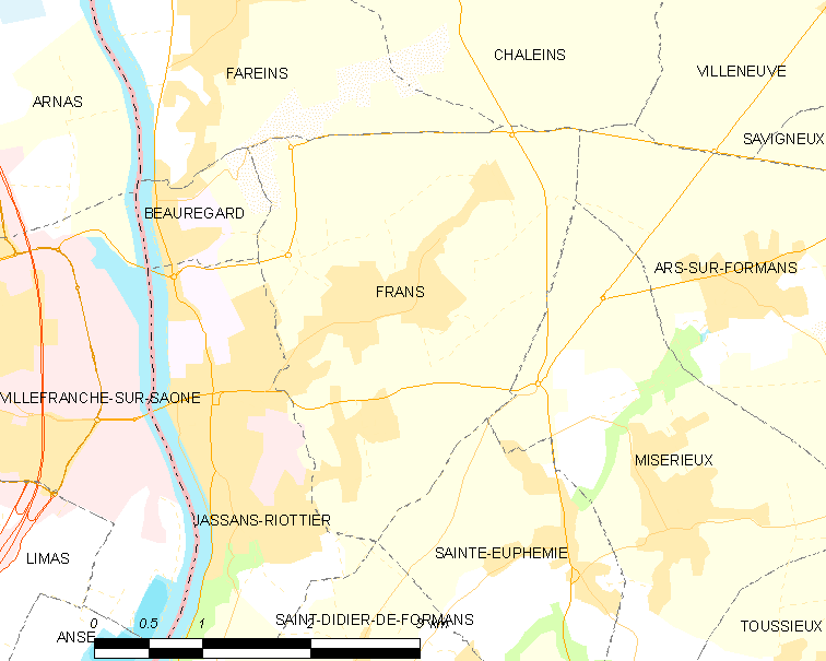 Map of French commune: Frans Map commune FR insee code 01166.png